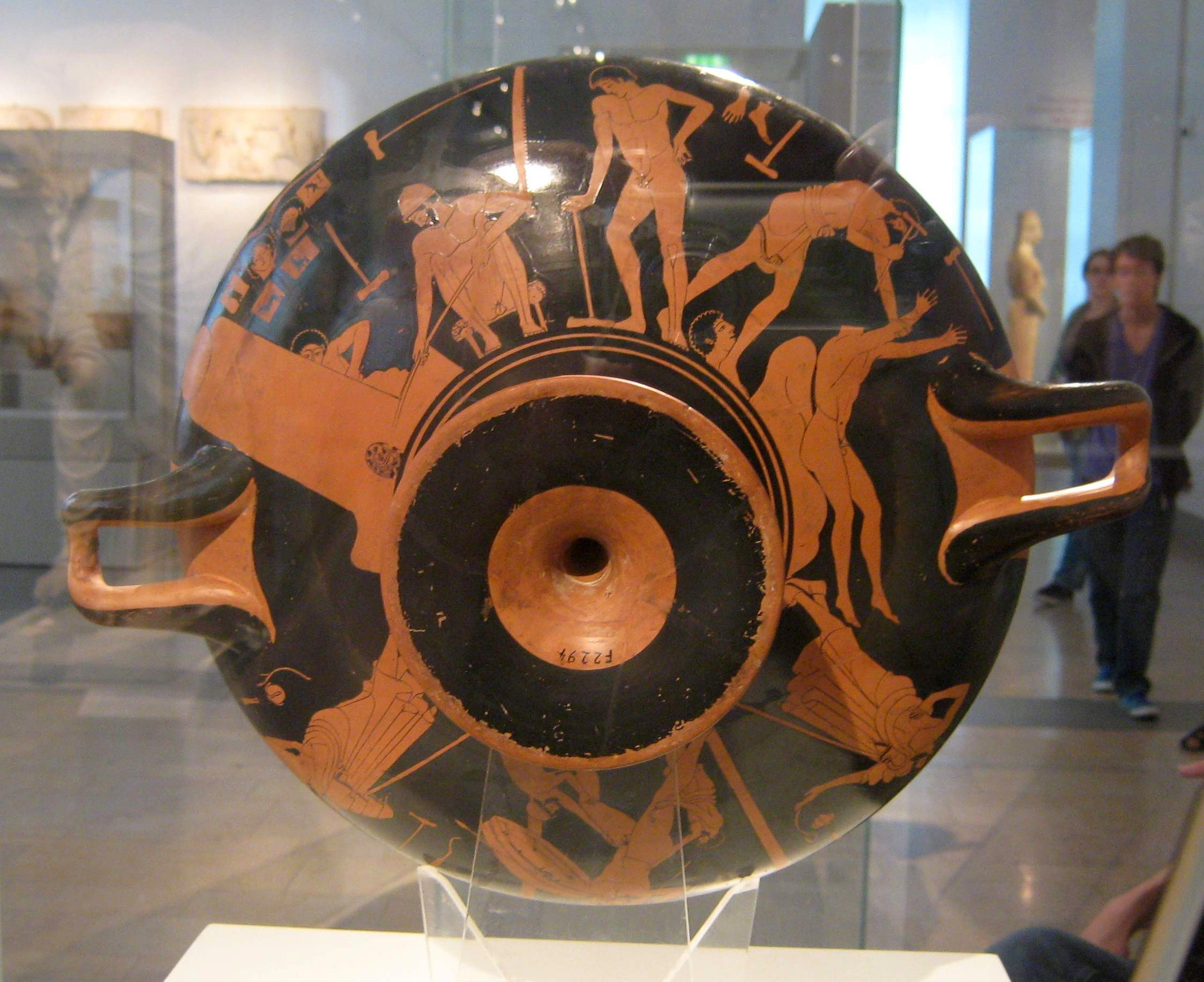 A sculptor's workshop. Attic red-figure kylix by the Foundry Painter (eponymous vase), early 5th century BC. W. 30.5 cm (12 in.). From Vulci. Antikensammlung Berlin, 2294.